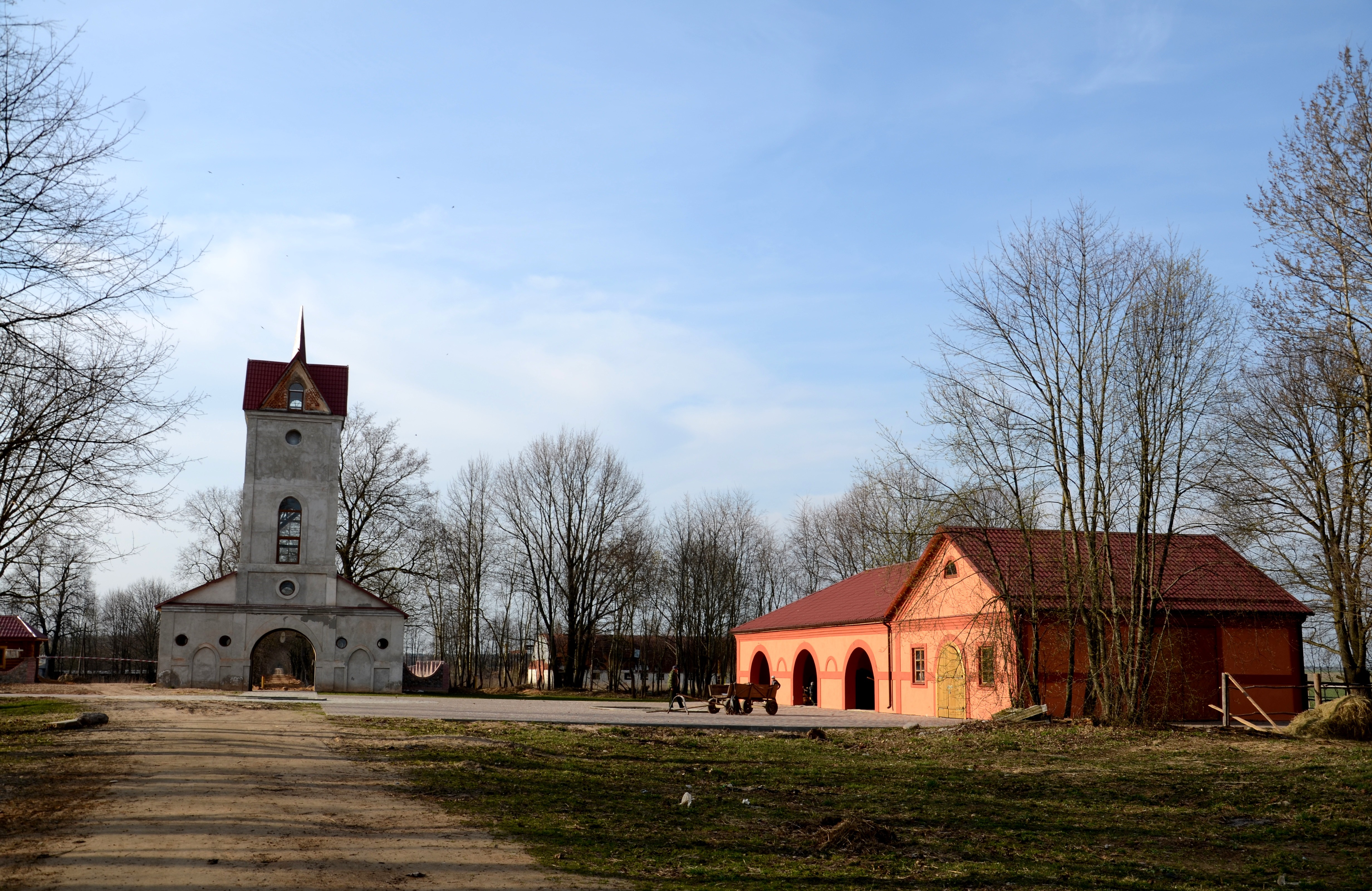 Stable in Palace of Hartings in Dukora, Pukhavichy district, Minsk province